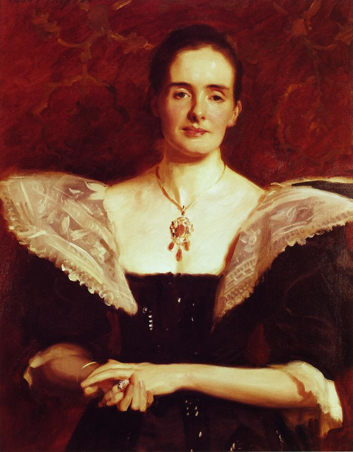 Mrs. William Russell Cooke John Singer Sargent -- American painter 1895 Private collection Oil on canvas 89 x 68.6 cm (35 x 27 in.) Inscription: (Upper left:) John S. Sargent signed Jpg: .the-athenaeum